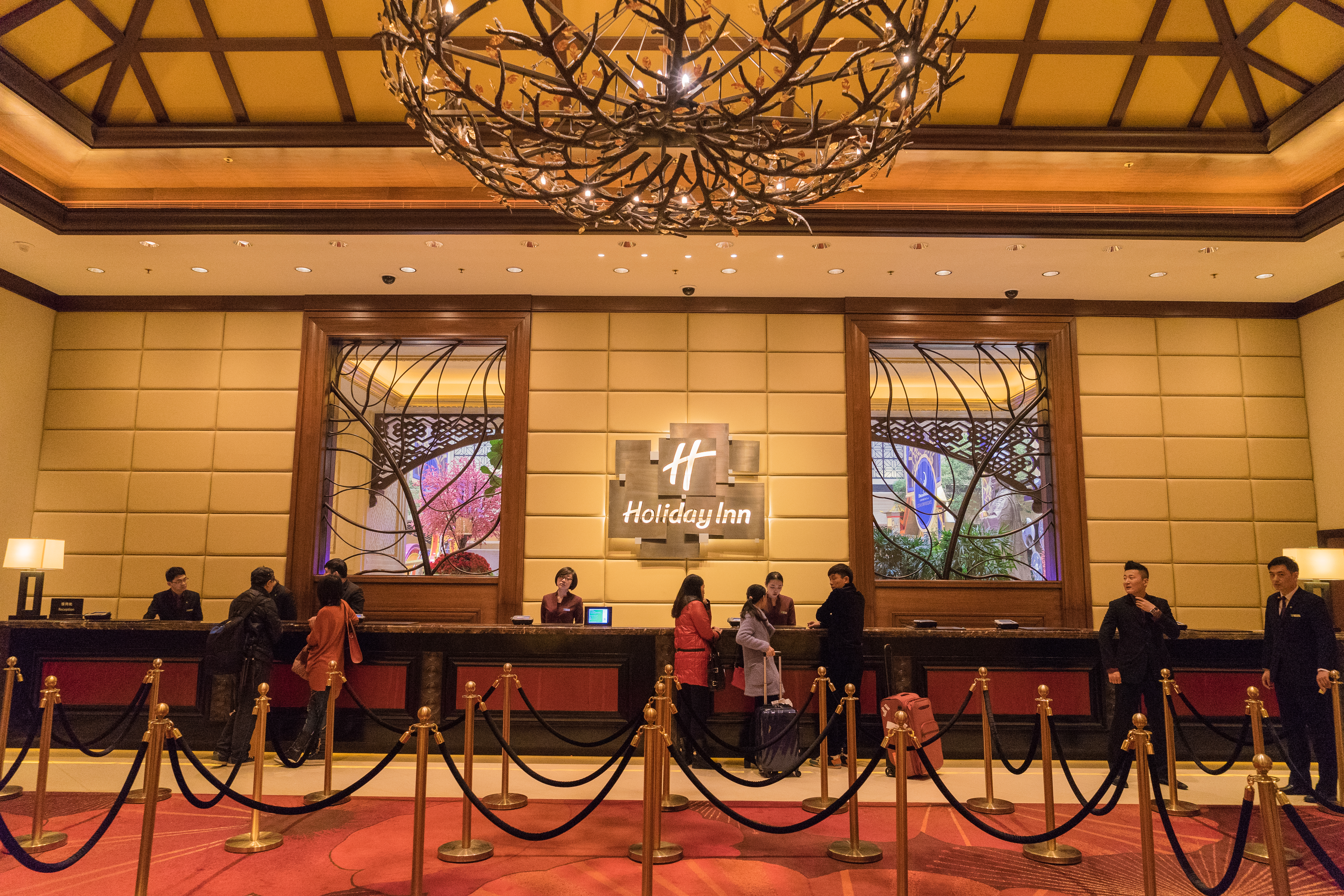 Holiday Inn Macao Cotai Central